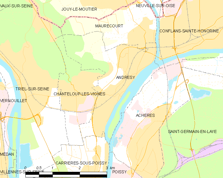 Map of French municipality Andrésy